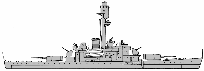 Finnish coastal defence ship Väinämöinen in 1940